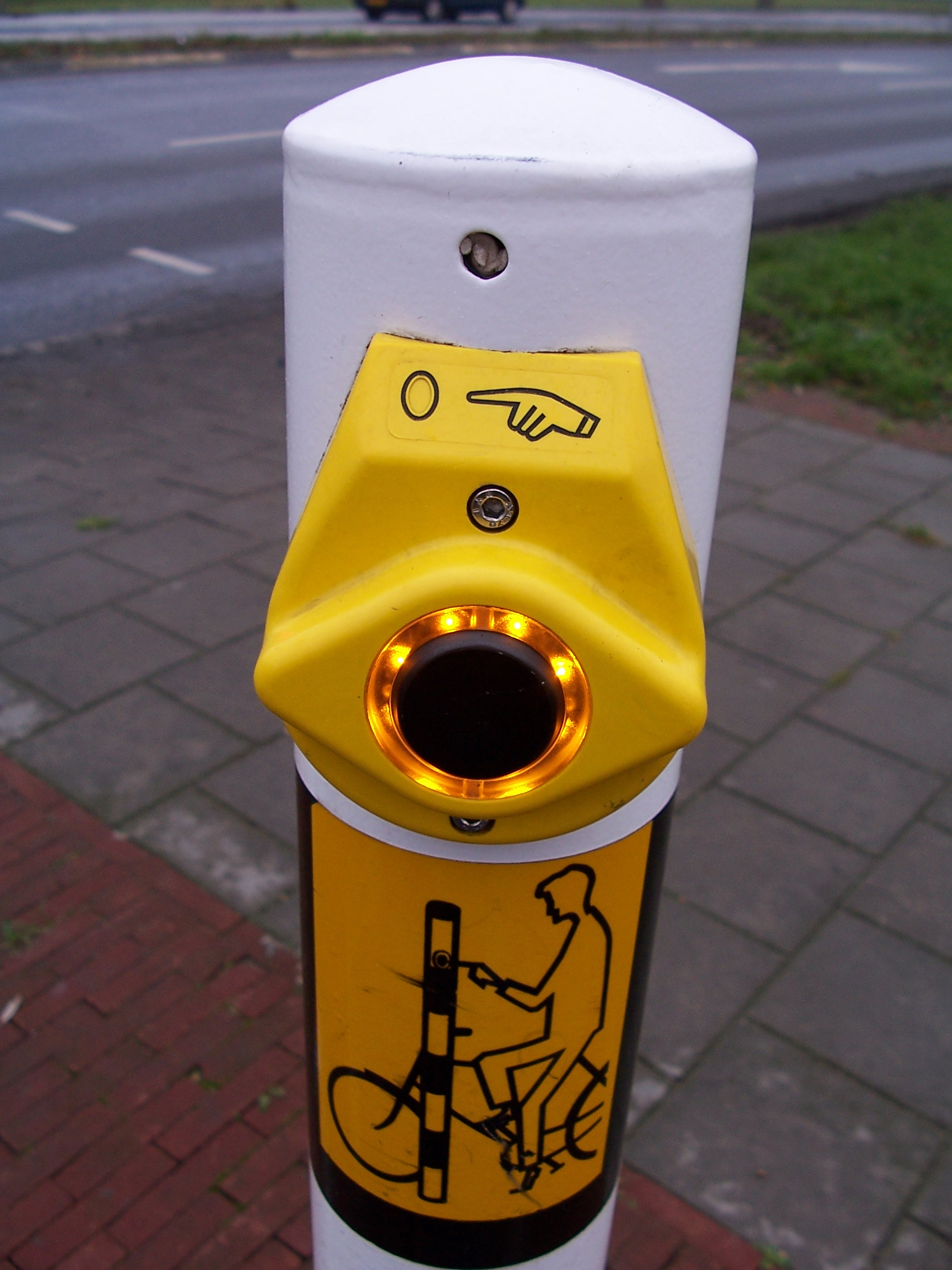 A switch on a traffic light for pedestrians